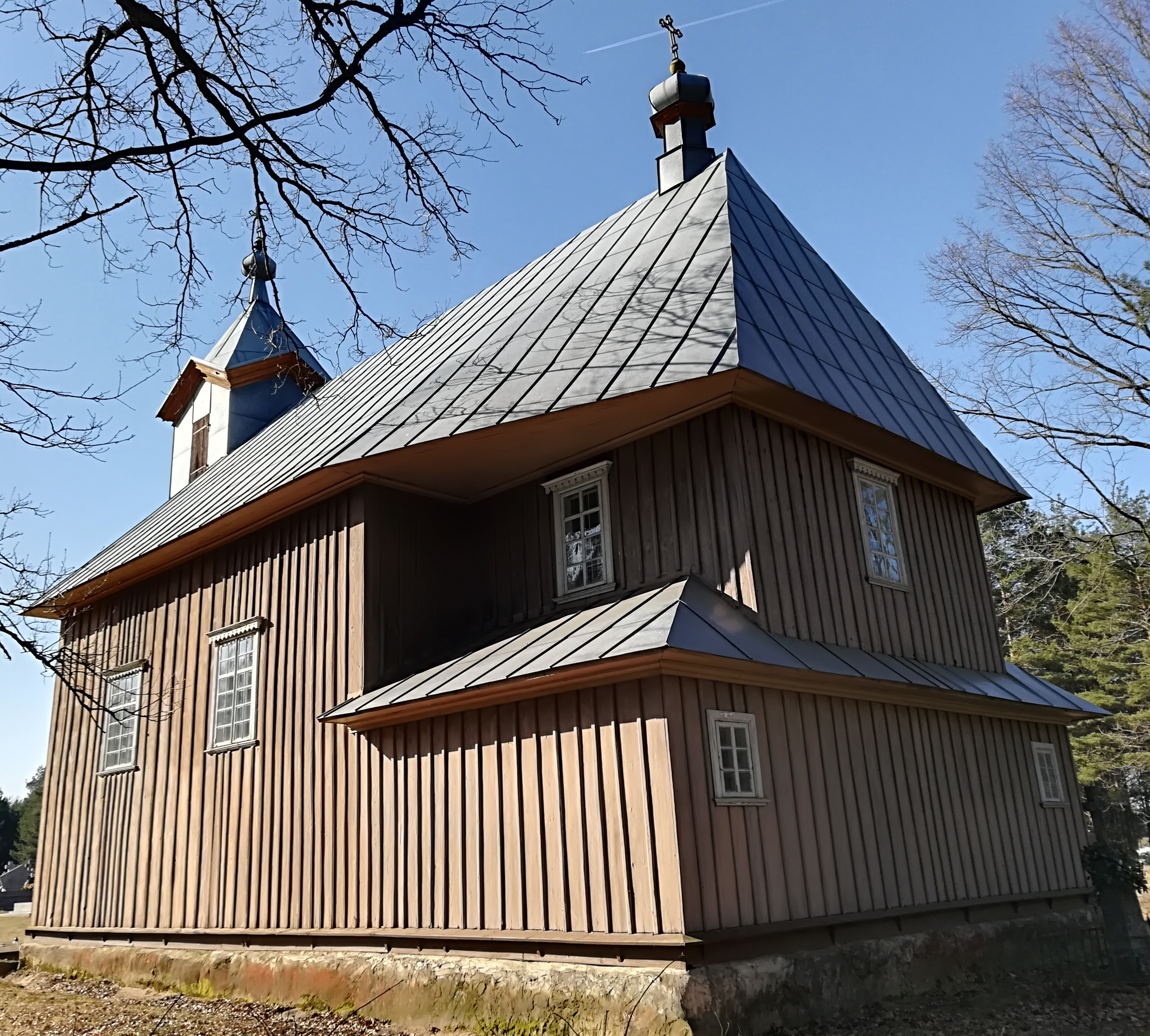 The cemetry Orthodox church in honour of the Entry of the Most Holy Theotokos into the Temple in Trościanica (Trześcianka) village in north-east Poland.